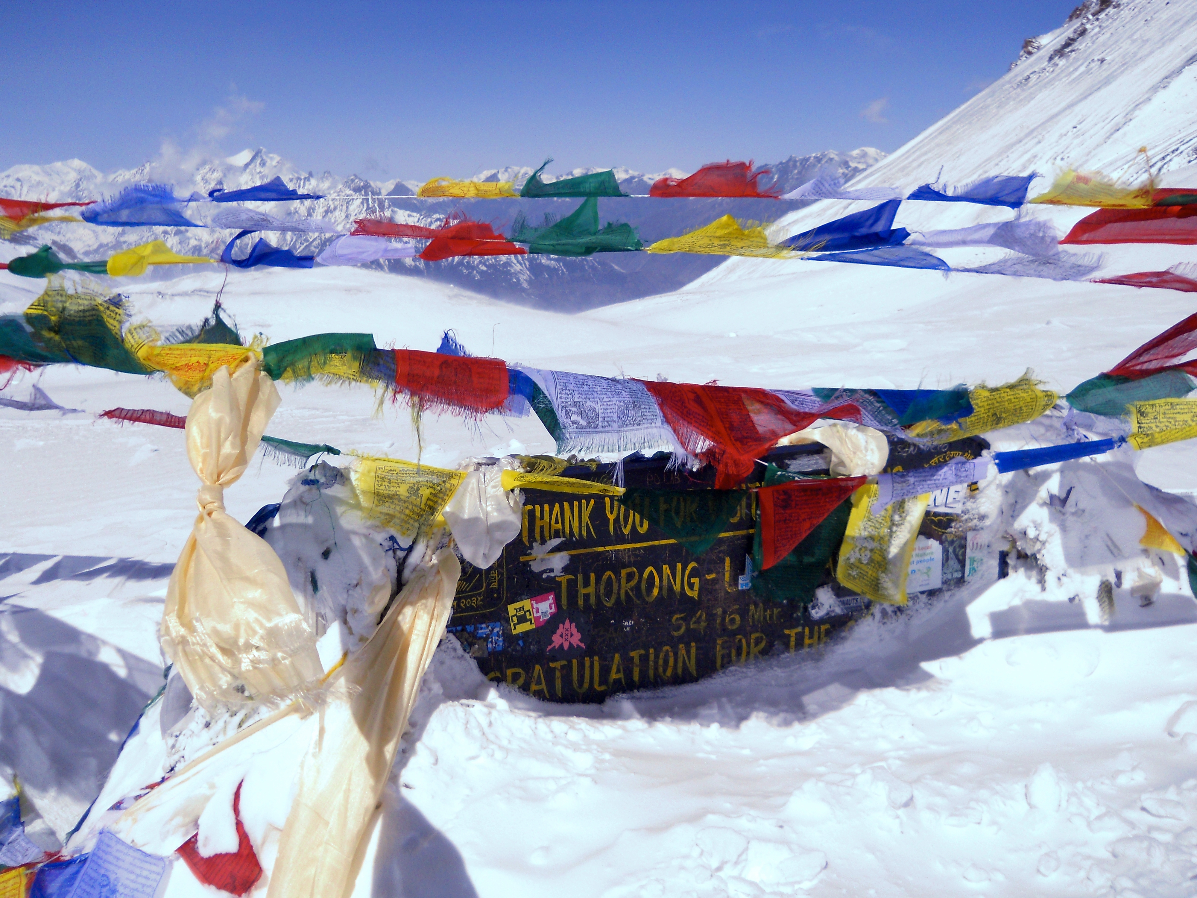 Highest mountain pass in the world